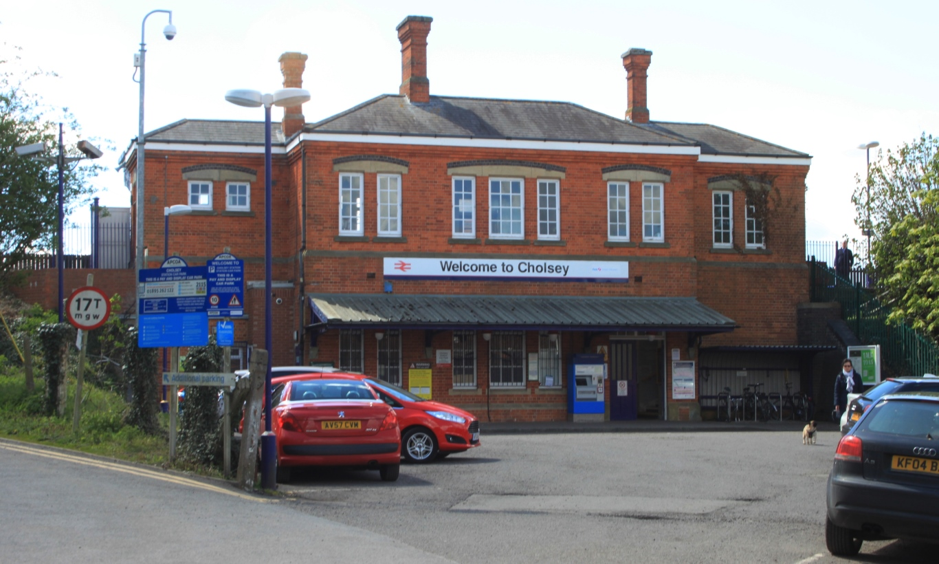 Cholsey railway station, which is on the Great Western Main Line between Didcot and Reading. The railway here is on a shallow embankment so the platforms are at first floor level above the ticket office.